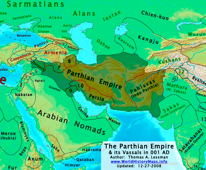 The Parthian Empire in 001 AD.